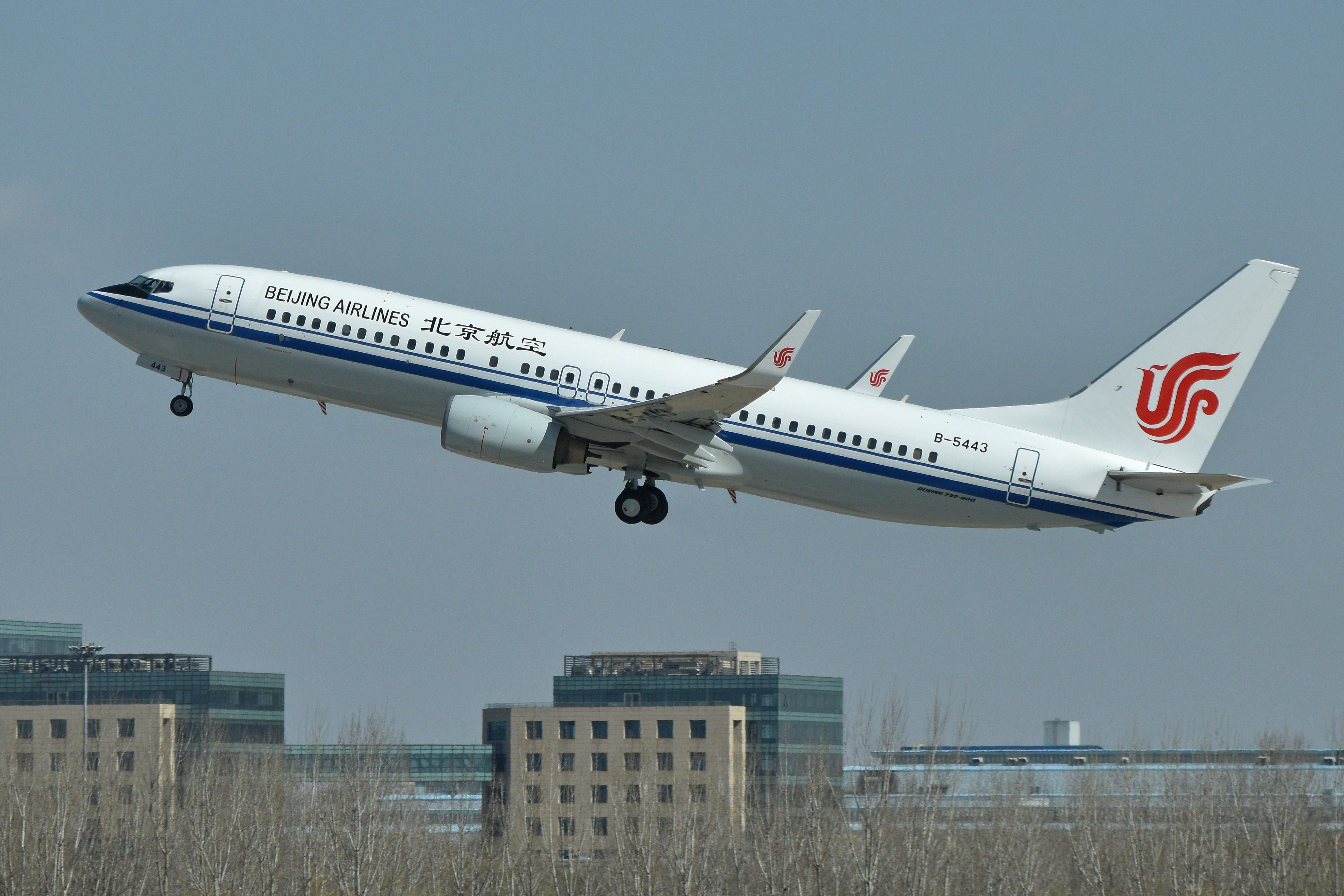 c/n 36746, l/n 3072 Built 2009 Seen departing on flight CA1657 / BJN1657 to Shanyang Beijing Capital International Airport. Beijing, People’s Republic of China. 11th March 2019